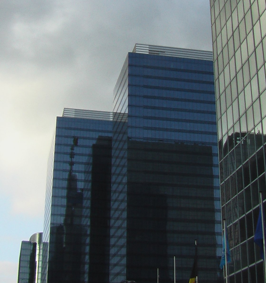 North Galaxy Towers Brussels